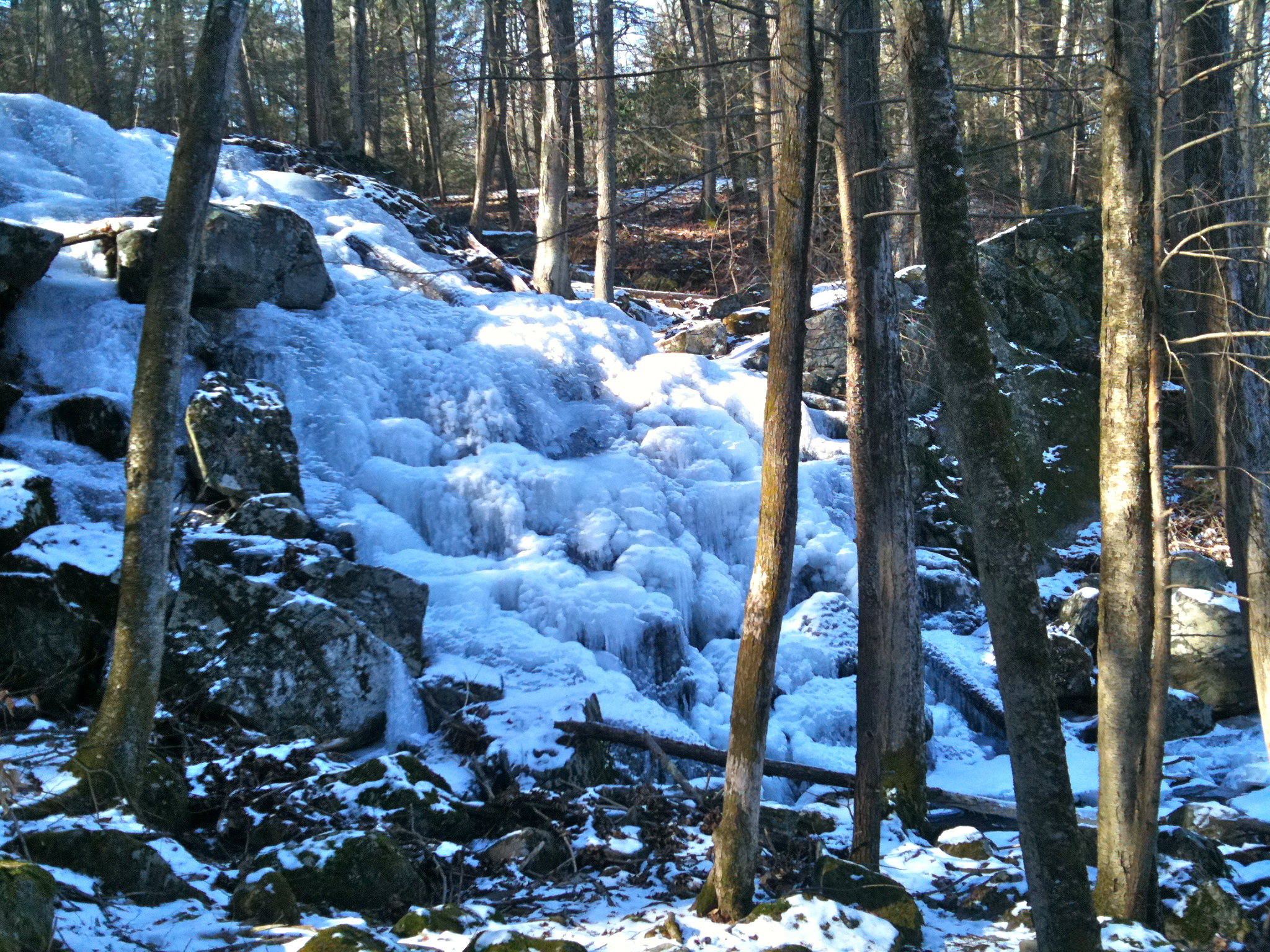 Frozen Prydden Falls above where Prydden Brook waterfalls empty into Lake Zoar.